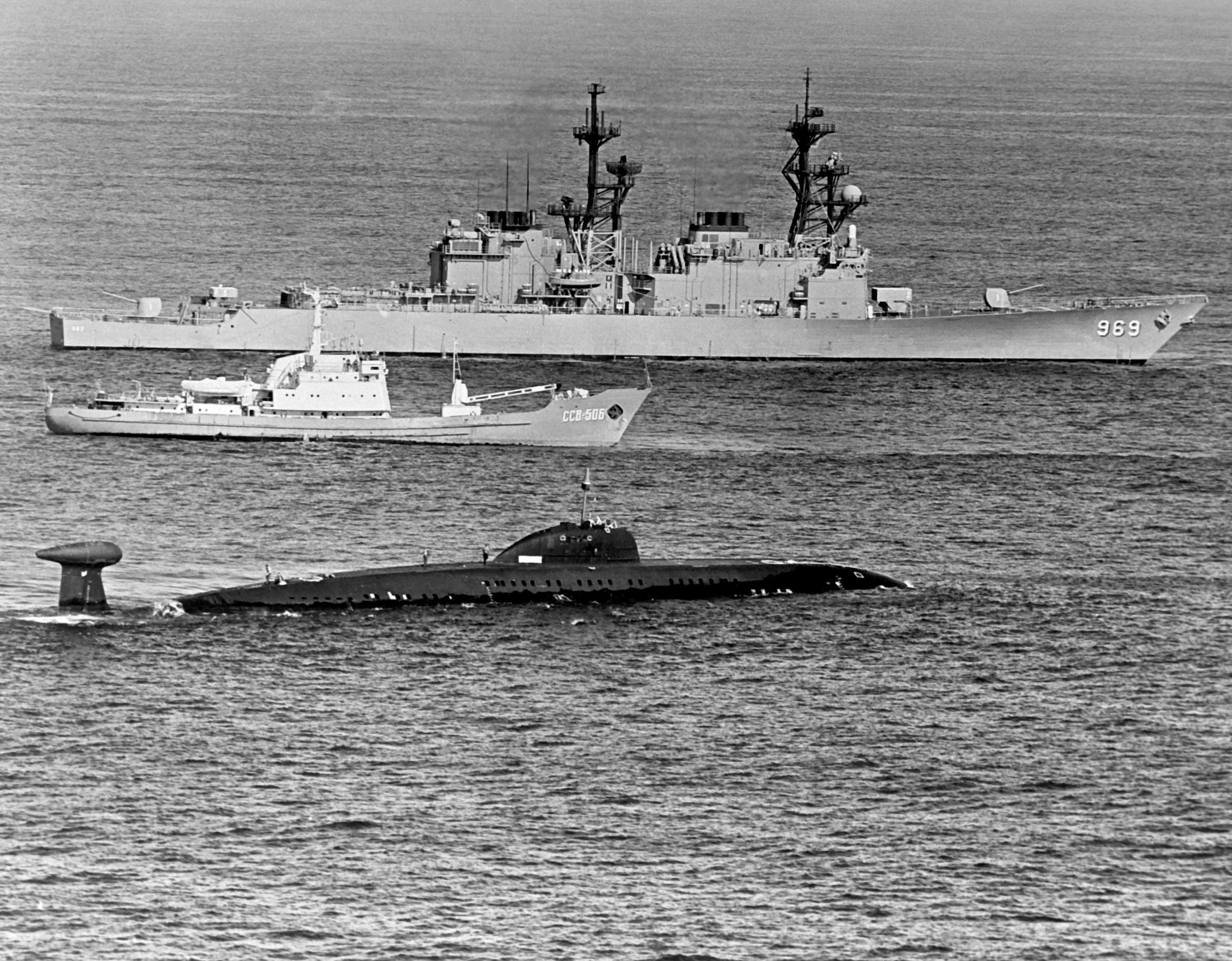 A starboard beam view of the destroyer USS PETERSON (DD-969), background, underway near a Soviet Moma Class survey ship and a disabled Victor III class submarine, foreground.